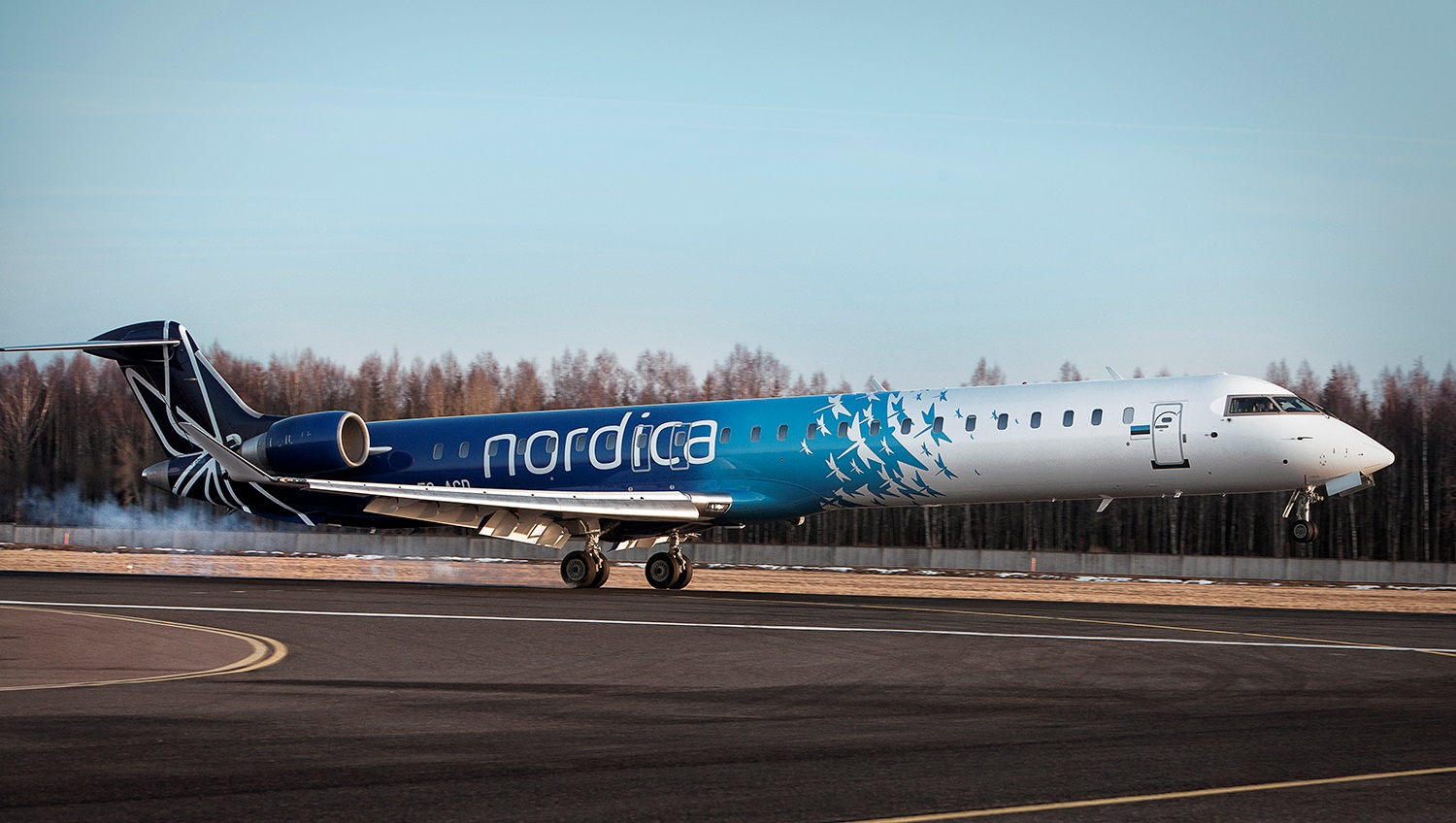 Landing in Tallinn, Estonia